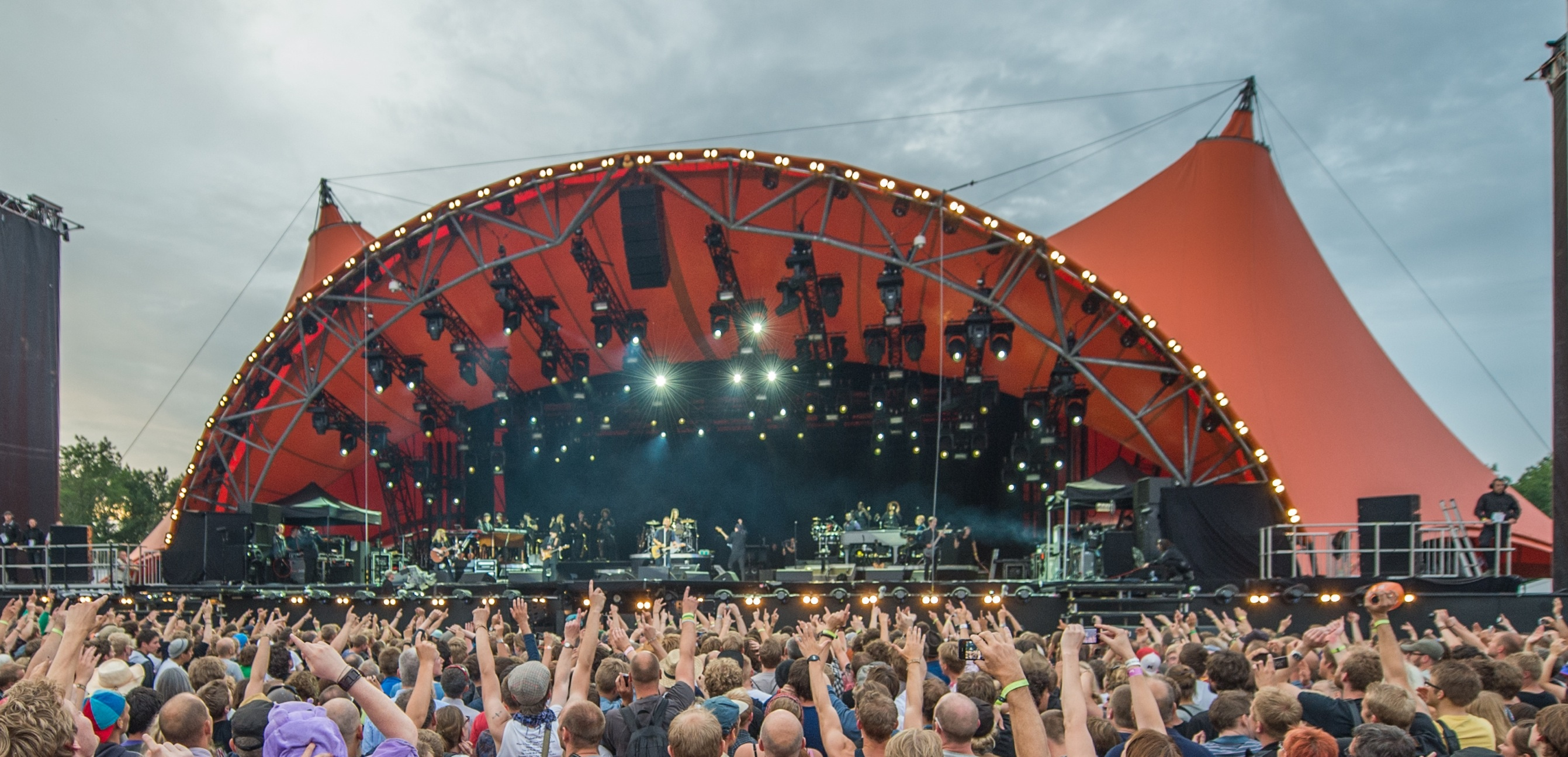 Picture showing Roskilde Festivals main stage, the Orange Stage. Bruce Springsteen performing in the background. Photo by Bill Ebbesen.